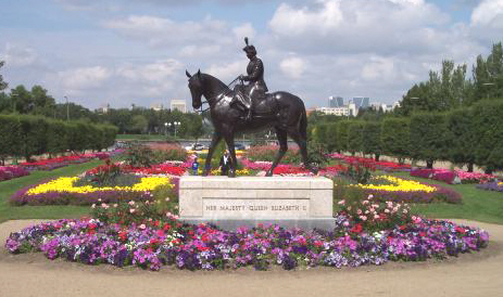 Statue of HM Queen Elizabeth II on her favourite horse, Burmese. In Regina, Saskatchewan in 2005.